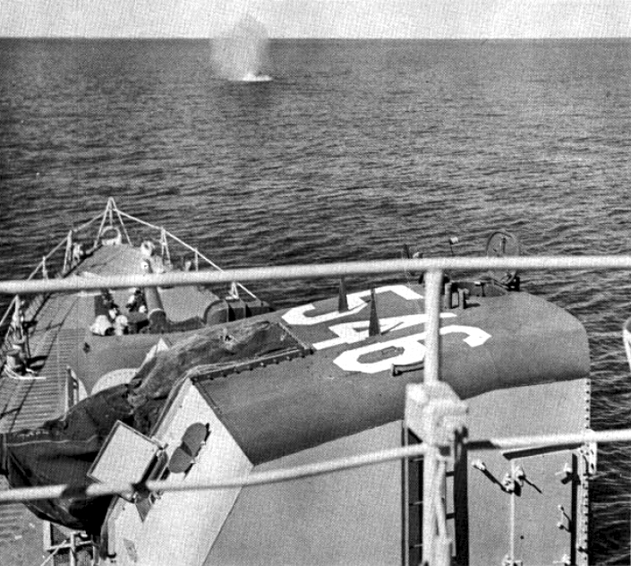 A North Korean shell explodes off the bow of the U.S. destroyer USS Brown (DD-546), circa 1951.